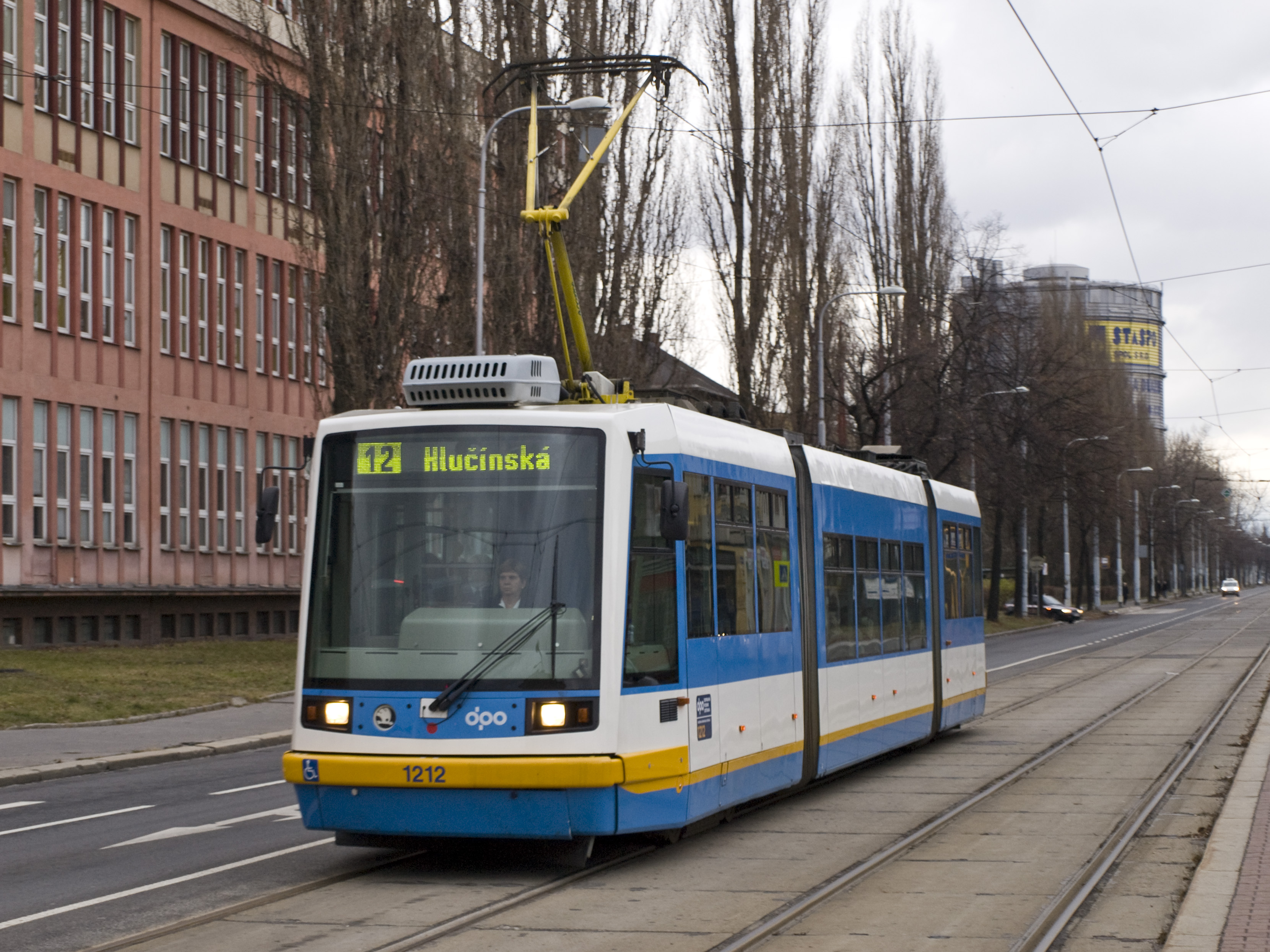 Škoda 03T, Mariánské náměstí, Ostrava